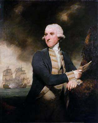 Portrait of Admiral Sir Samuel Hood, later Lord Hood (1724-1816)